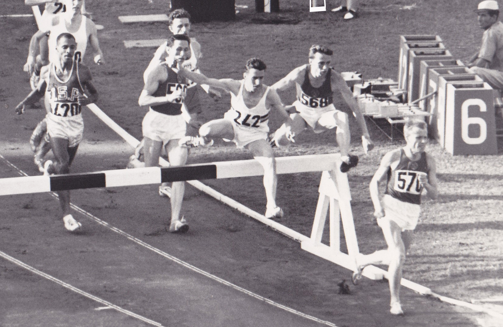 Men's 3000 m steeplechase final at the 1960 Olympics. Nikolay Sokolov is leading the race.